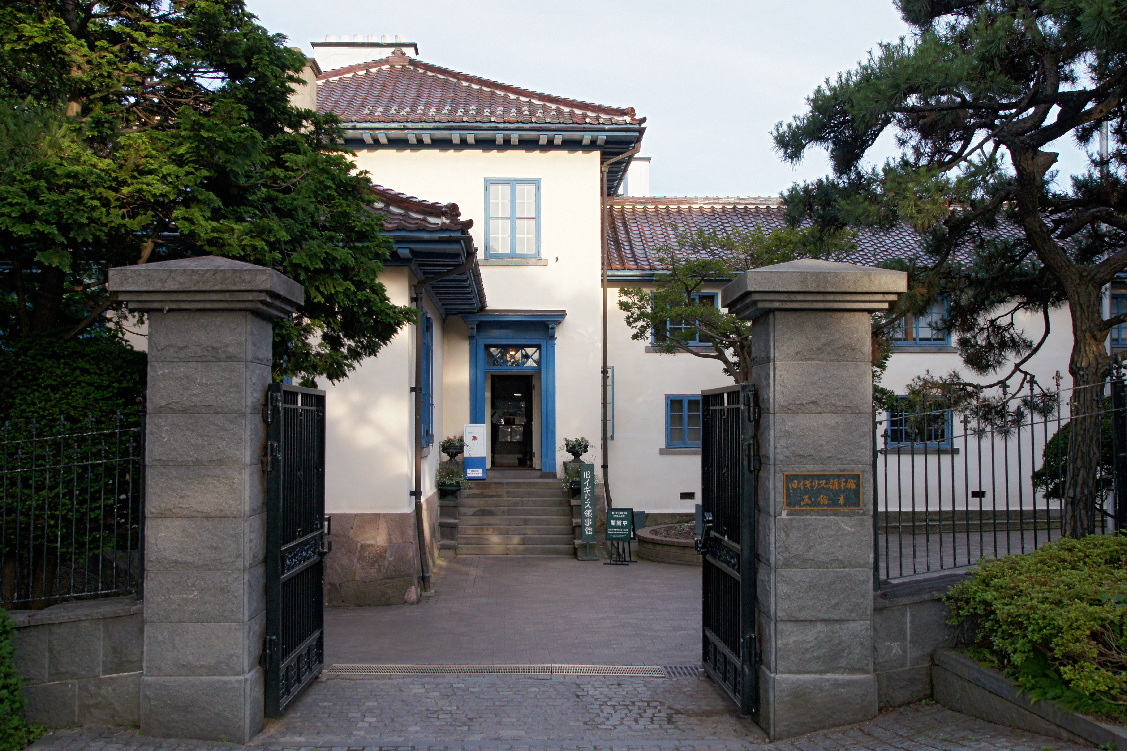 Former British Consulate in_Hakodate, Hokkaido prefecture, Japan